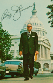 Former United States Representative from California Harold T. Johnson.